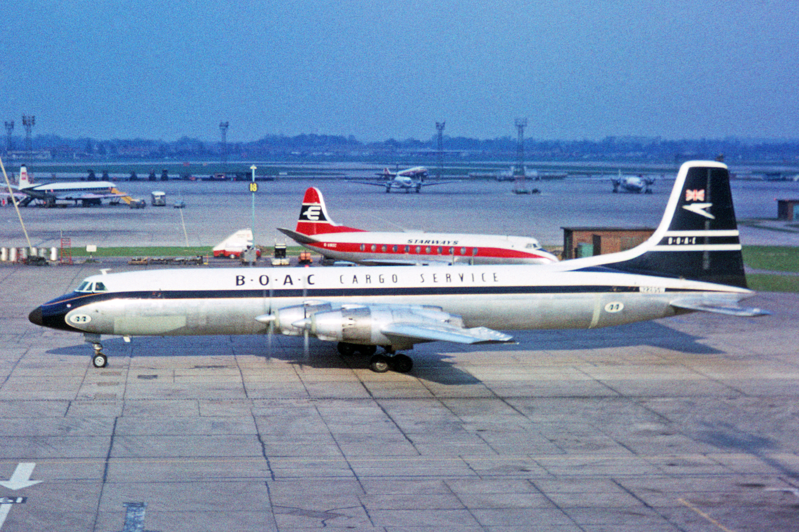 Leased from/operated by Seaboard World Airlines. In the background, apart from the Starways/British Eagle Viscount 700, theres a BEA Comet 4B, Skyways Avro 748, British Westpoint DC-3 and a BKS Airspeed Ambassador.